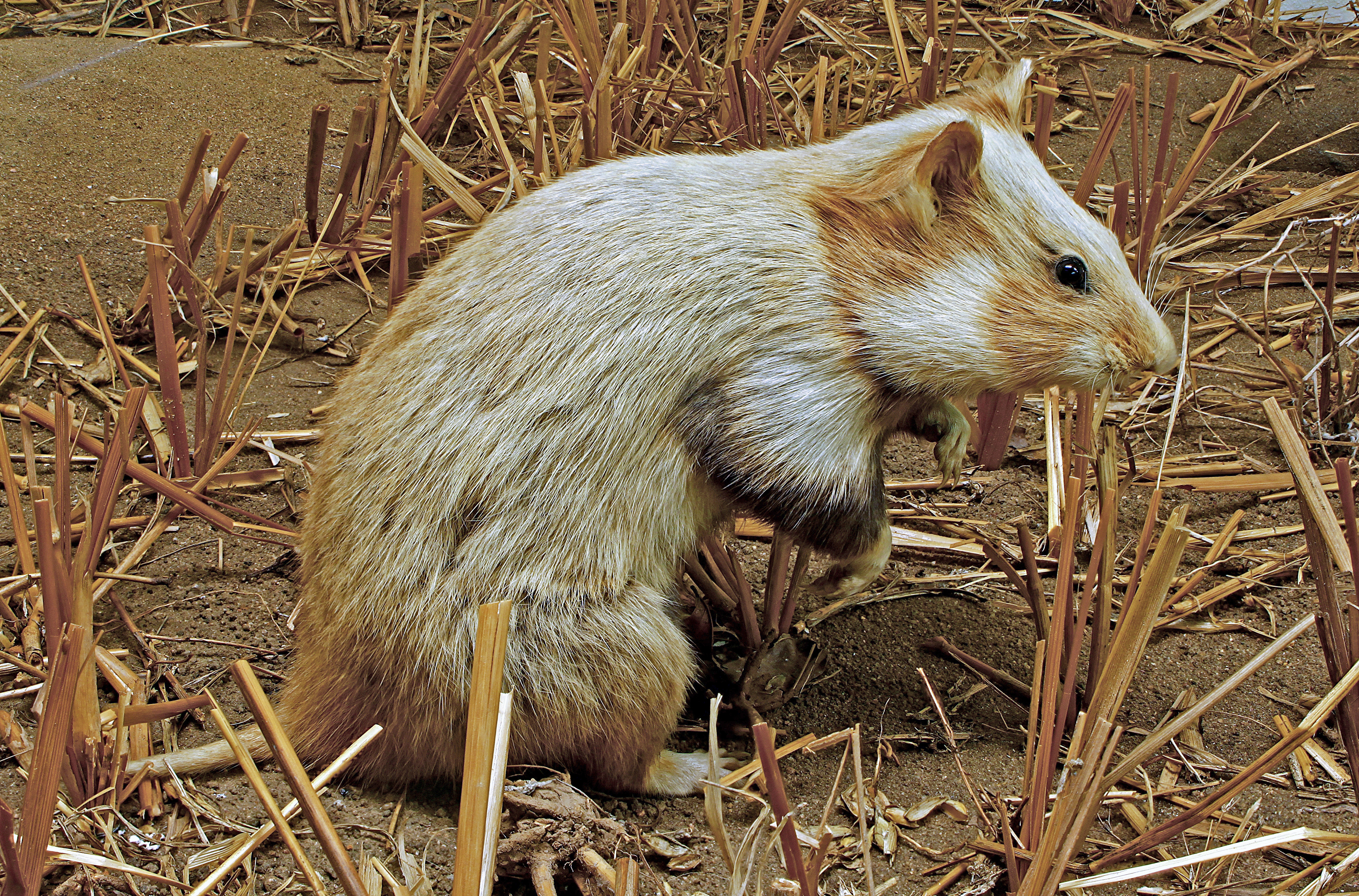 European Hamster, Black-bellied Hamster, Common Hamster; Staatliches Museum für Naturkunde Karlsruhe, Germany.